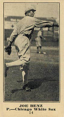 1916 Sporting News baseball card of Joe Benz.